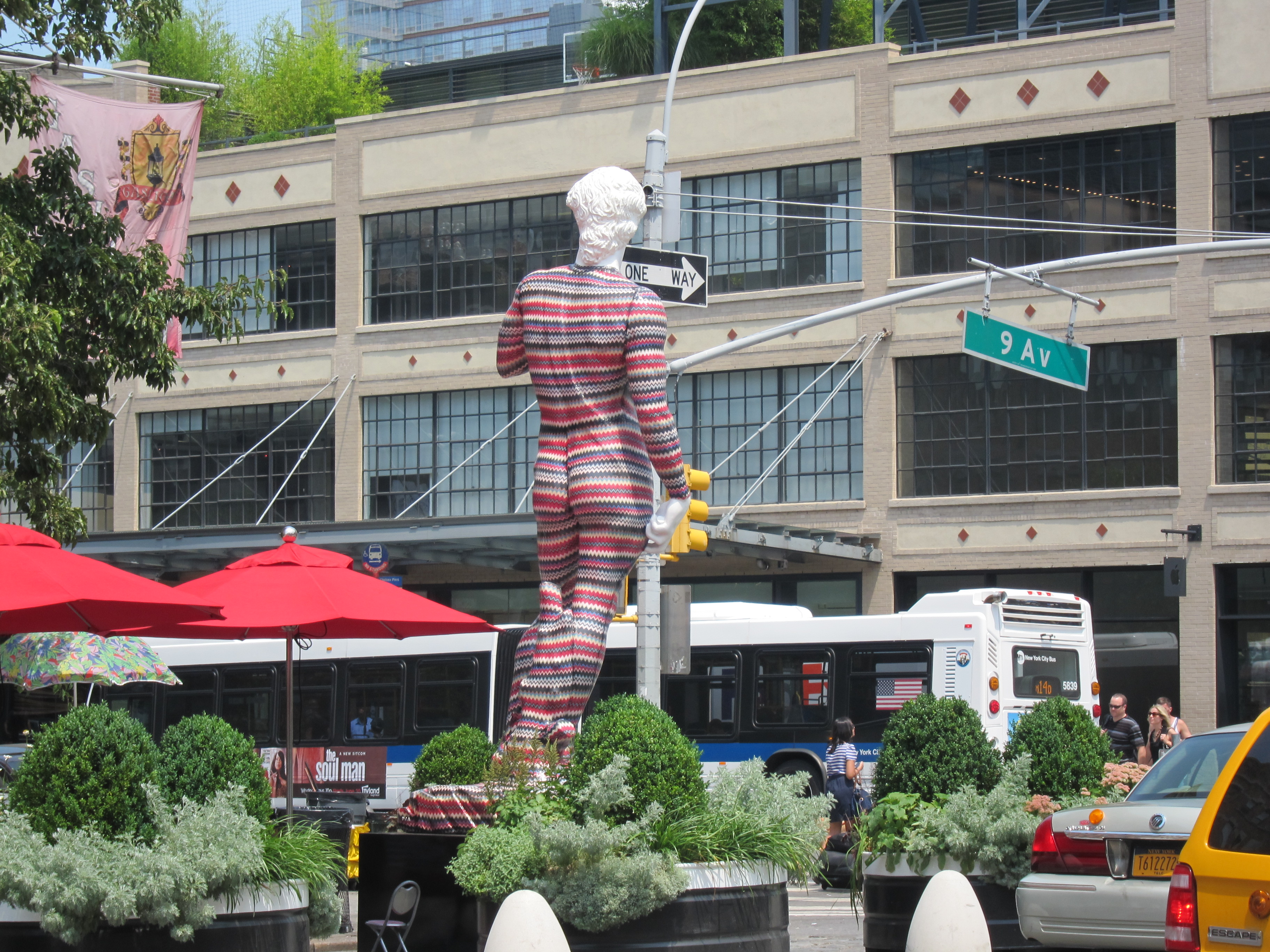 Replica of Michelangelo's David at the Ninth Avenue and west 14 street, Manhattan, New York City.